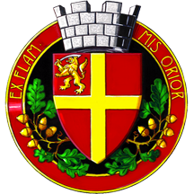 Middle coat of arms of Požarevac (2001-2006)